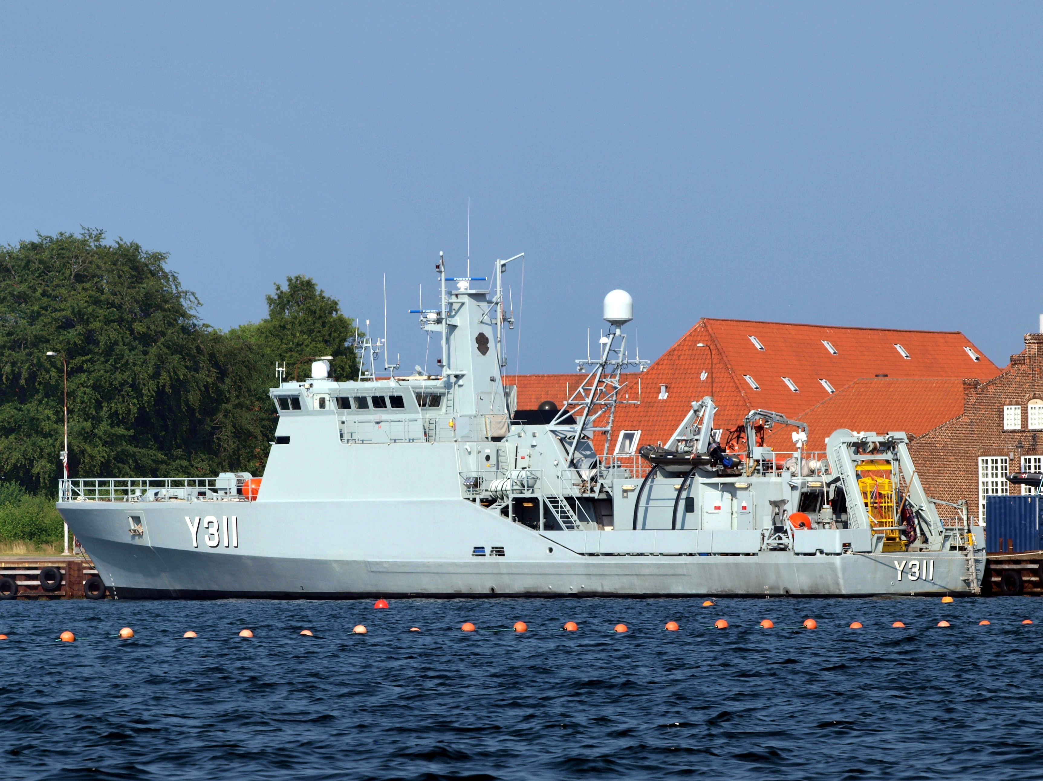 Photographed at the Copenhagen, Denmark.